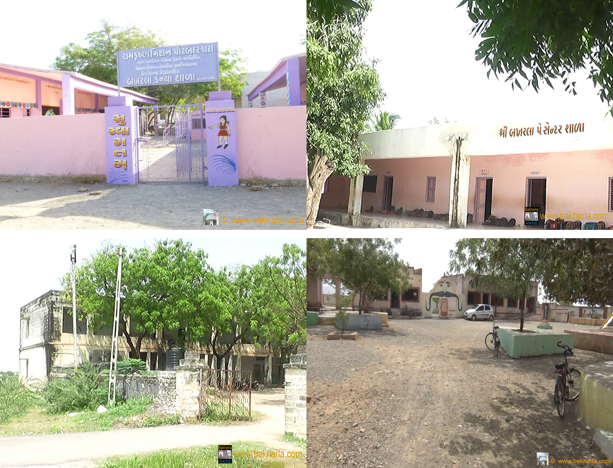 Photo of all the schools serving Bakharla and the surrounding areas. Clockwise Bakharla Kanya School, Bakharla Boys School, Bakharla Chamundi Sim Shala and the Bakharla High School.